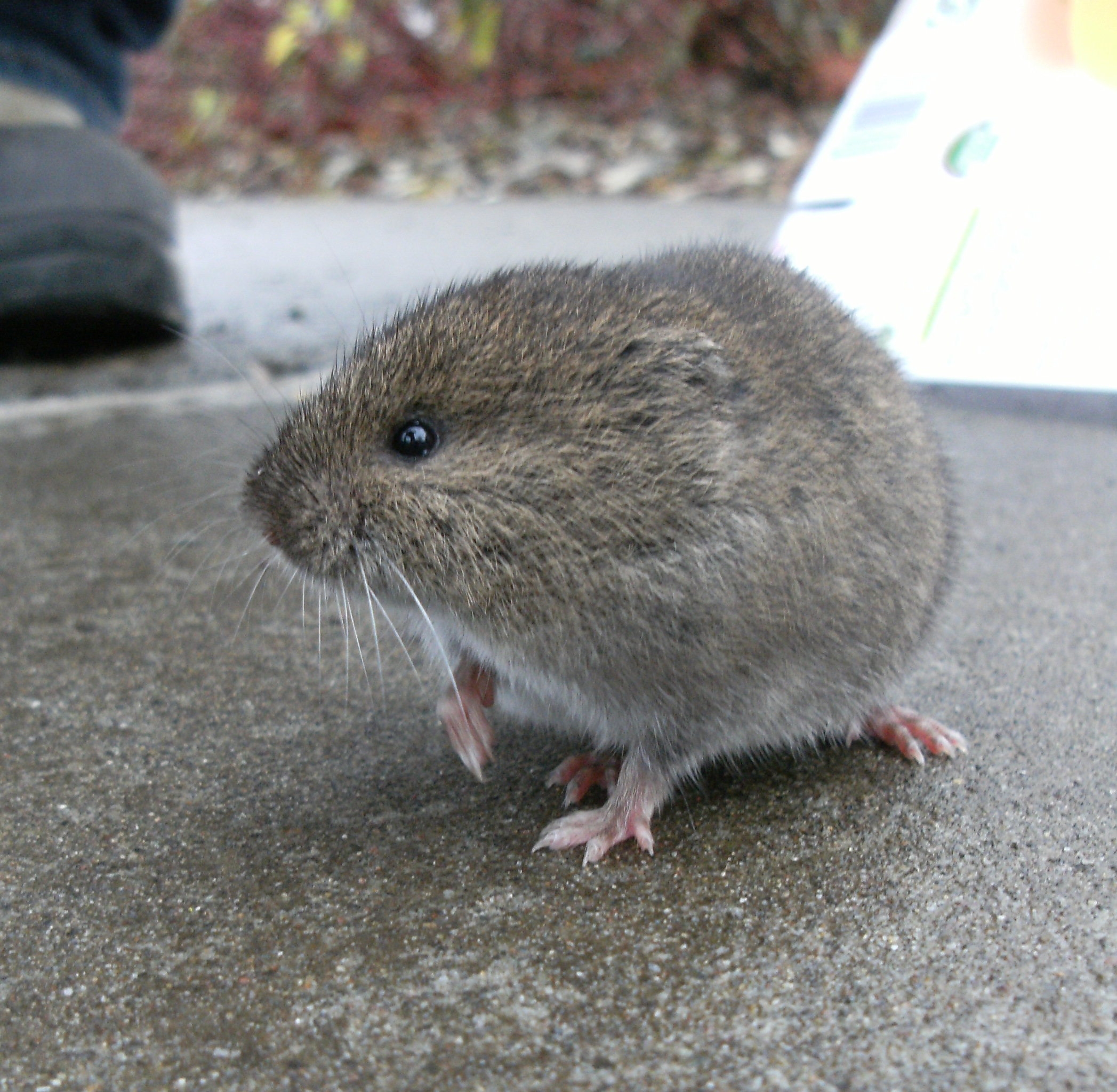 Photograph uploaded to Flickr, labeled as Western red-backed vole. "Seen at Jackson Bottom Wetlands Preserve"